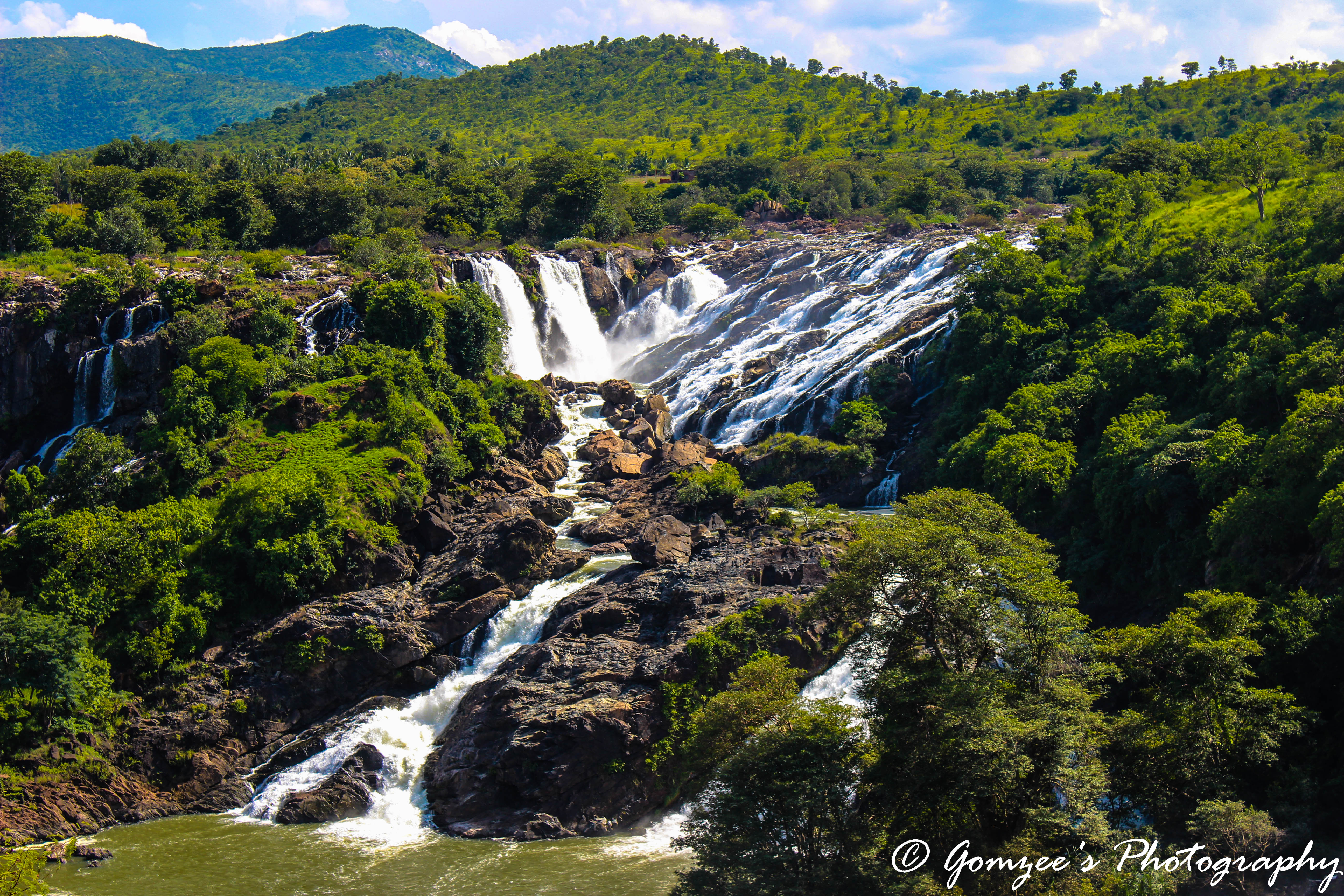 Nature's Art